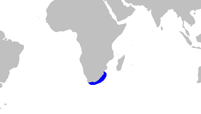 Distribution map for Haploblepharus edwardsii